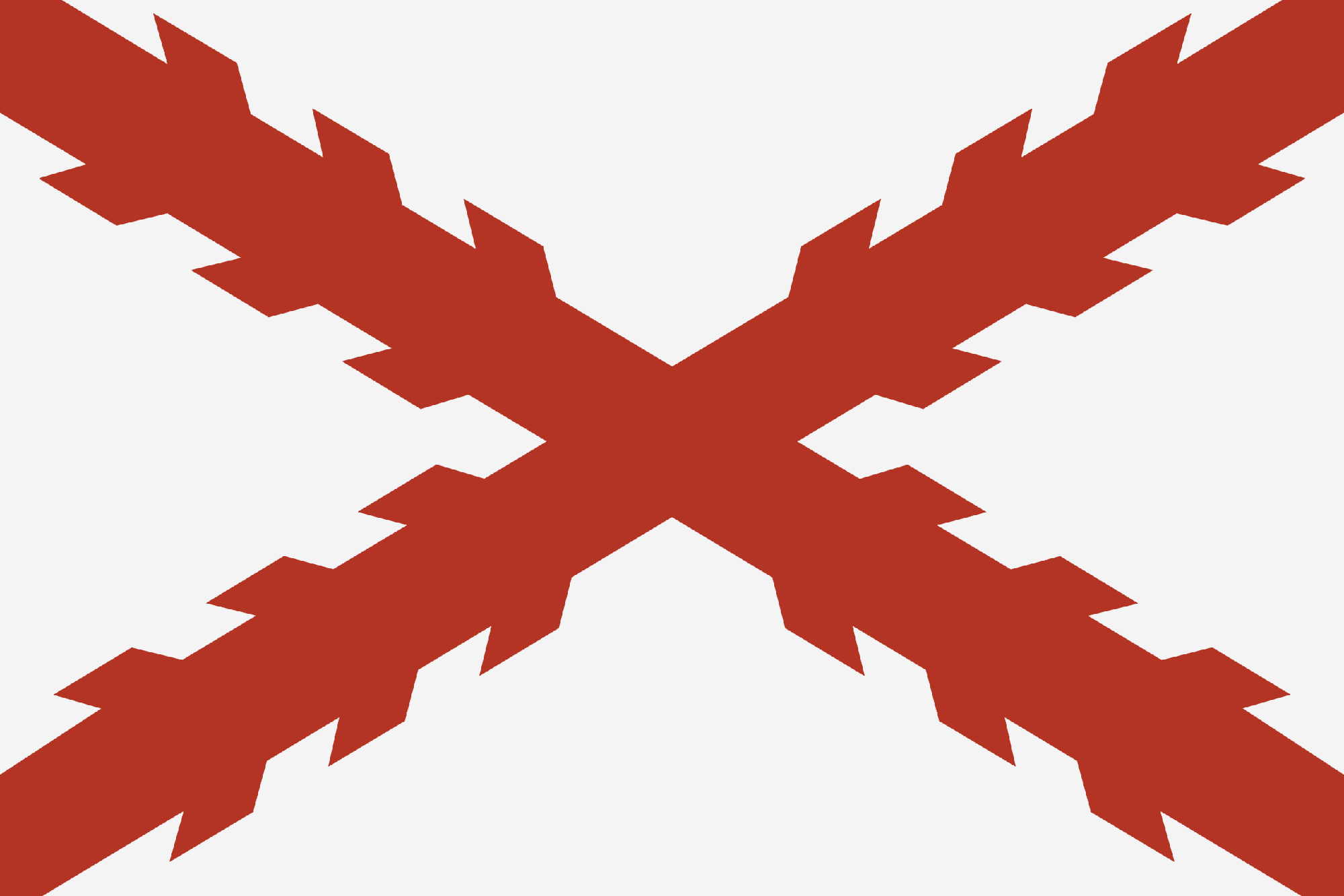 Los Adaes flag. Los Adaes was the capital of Tejas on the northeastern frontier of New Spain from 1729 to 1770.